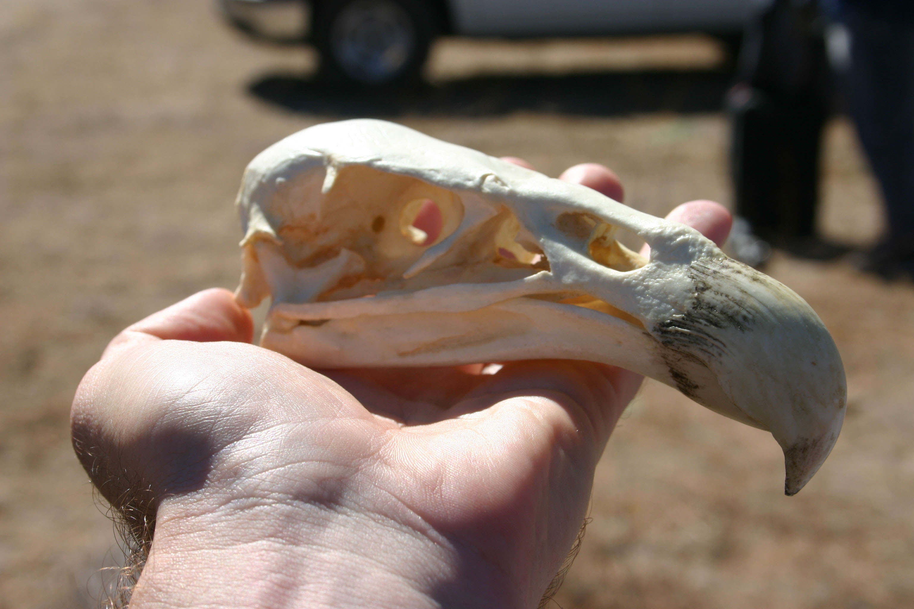 Calif. condor skull